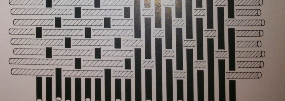 de breedtedraden zijn de inslagdraden en de lengtedraden zijn de kettingdraden